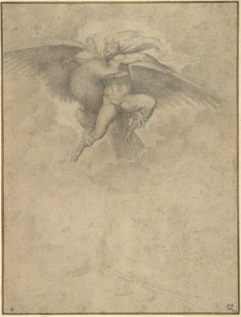 According to Vasari this drawing was made for a young gentleman call'd Tomaso de Cavalieri by Michael Angelo in order to encourage, & teach him to draw. inscription: verso of mount, brown ink, center: N 29 [effaced] / AH: E. / Michael Angelo Bona rota inscription: verso of mount, lower left, graphite: 214 inscription: verso of mount, upper left, graphite: 37 [crossed out] / Mieff[?] collector's mark: l.r. corner, Black ink: L. 1433 (Sir J. C. Robinson) collector's mark: l.r. corner, Black ink: L. 2771 (H. C. Jennings) ProvenanceHenry Constantine Jennings (L. 2771). Thomas Lawrence (without his mark); [Samuel Woodburn]; William II, King of Holland, his sale, Amsterdam, De Vries, Roos, and Brondgeest, 12 August 1850, lot 153, as "attributed to Michelangelo;" sold to Samuel Woodburn, his sale, London, Christie's, 4 June 1860, lot 137, bought by [dealer?] Enson. Sir John Charles Robinson (L. 1433); his son, Charles Newton Robinson, 1914 (presumably inherited in 1913 from his father). John Hemming Fry; Noel Monod, Greenwich, Conn.; sold to Fogg Art Museum for $1200, 1955.